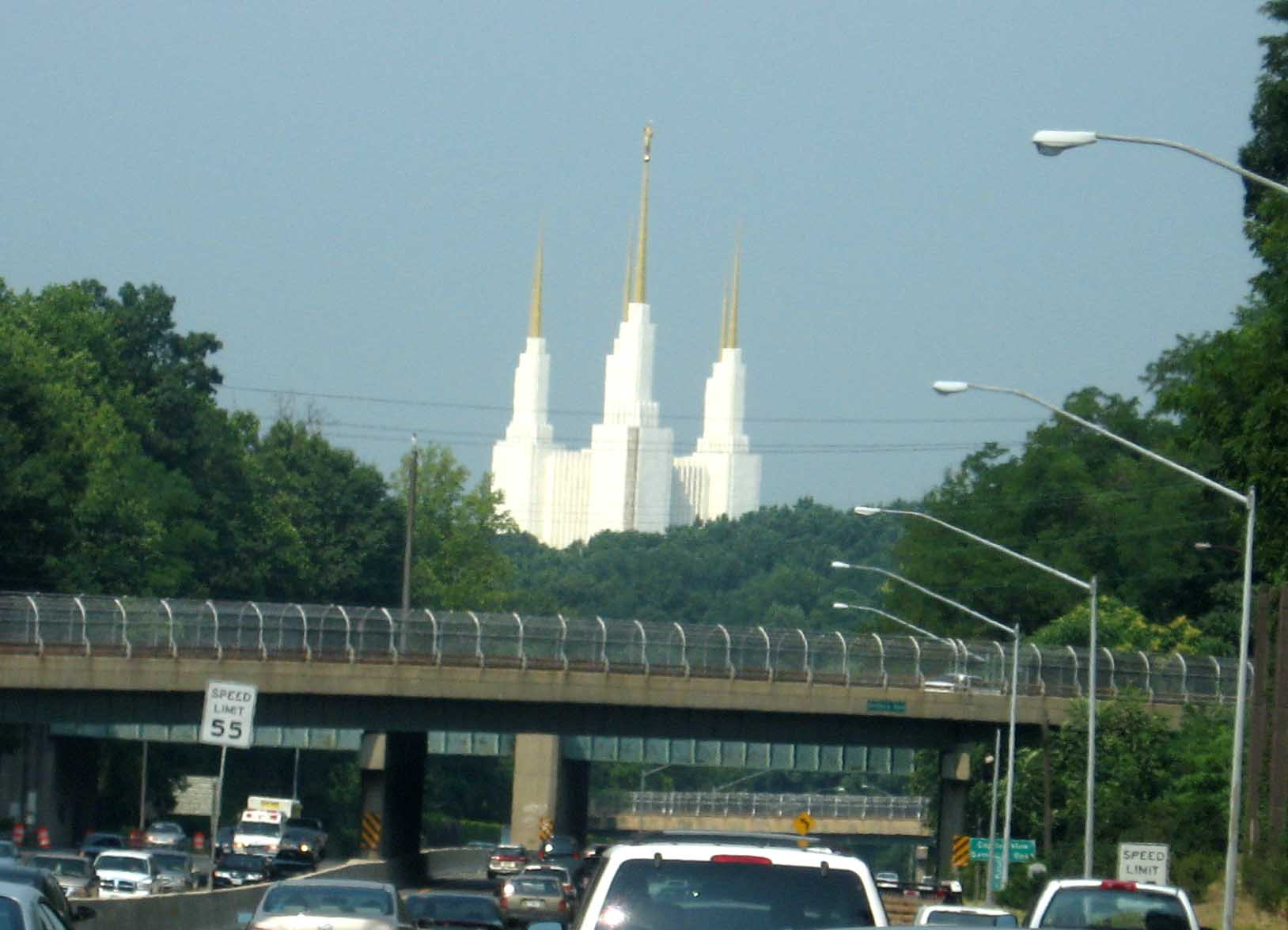 The Washington D.C. Temple of The Church of Jesus Christ of Latter-day Saints, photographed from Interstate 495.